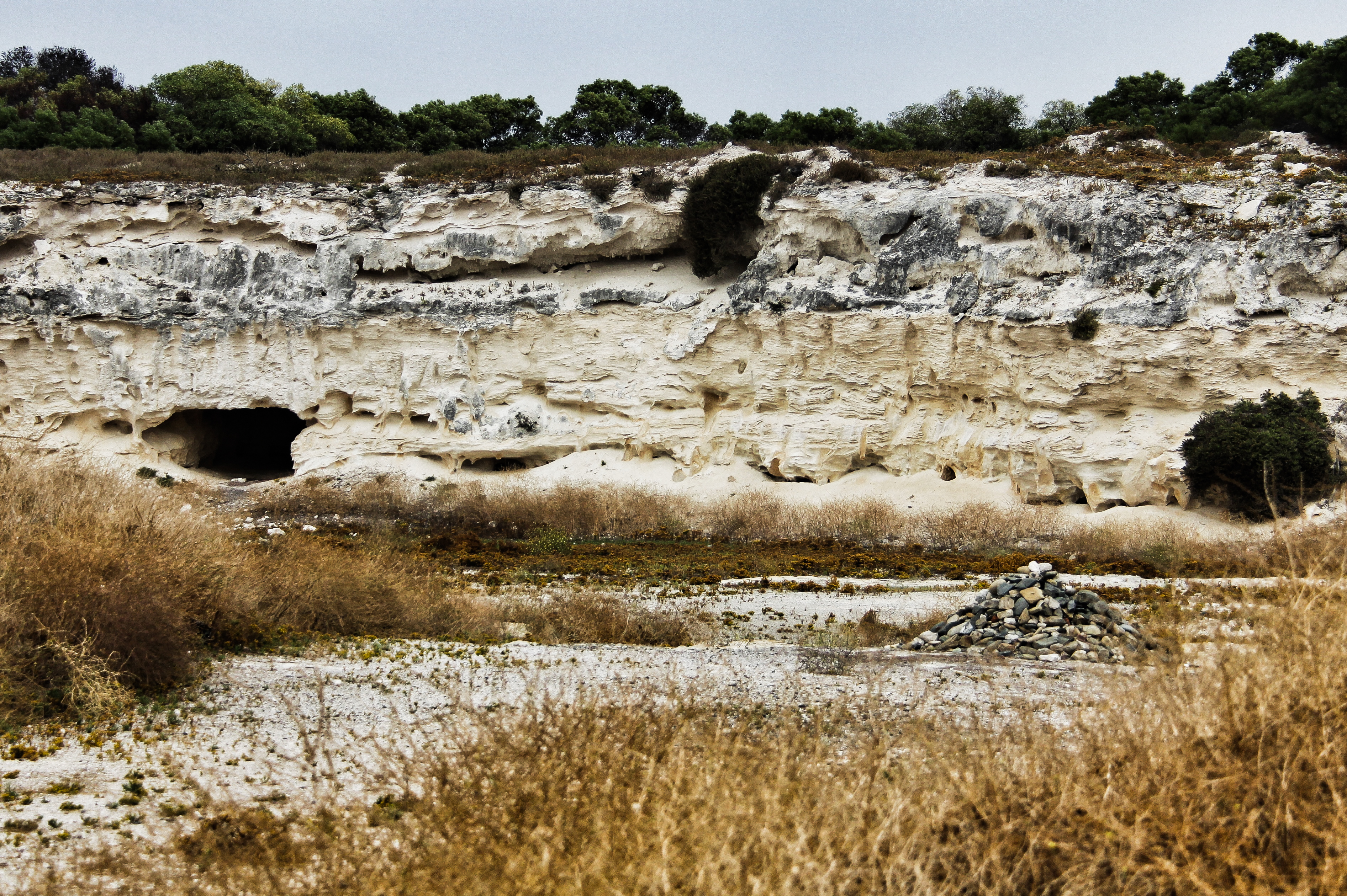 This media shows a South African Protected Site with SAHRA file reference 9/2/018/0004.